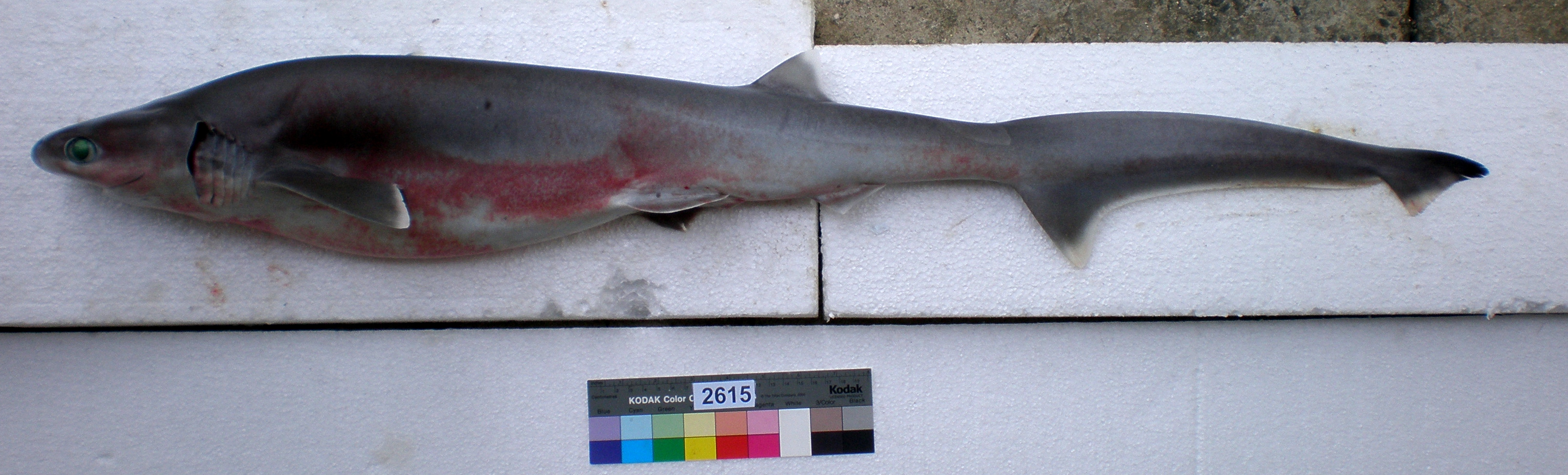 Hexanchus nakamurai. Body, lateral view. Locality: near Passe de Dumbéa, off Nouméa, New Caledonia, Coordinates 22°19'670S, 166°12'899E. Total length 1020 mm, Weight 3,600 grams. Date 03 July 2008. This specimen has been identified by Bernard Séret, IRD-MNHN. This photograph is also in FishBase.